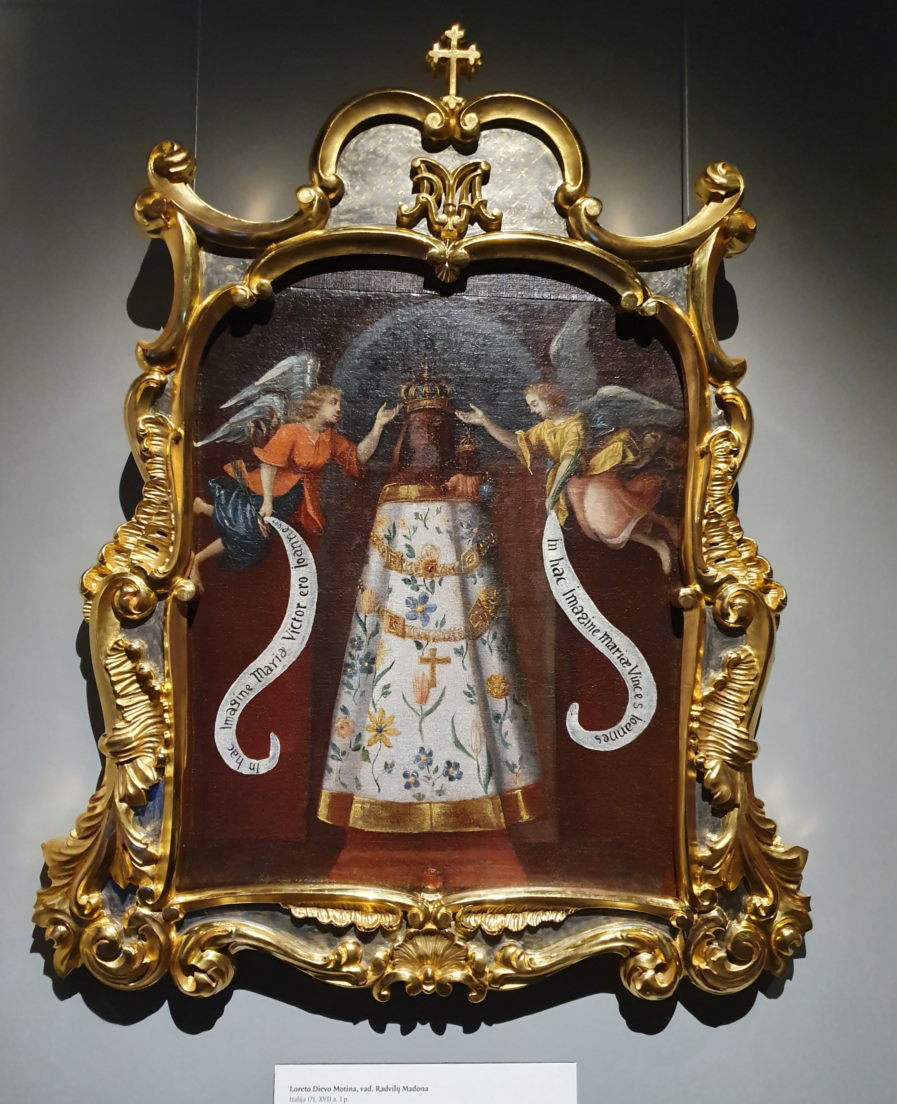 Loreto's Mother of God (called as the Radziwiłłs Madonna). The painting was painted in the first half of the 17th century in Italy. It was photographed during an exhibition at the Palace of the Grand Dukes of Lithuania.